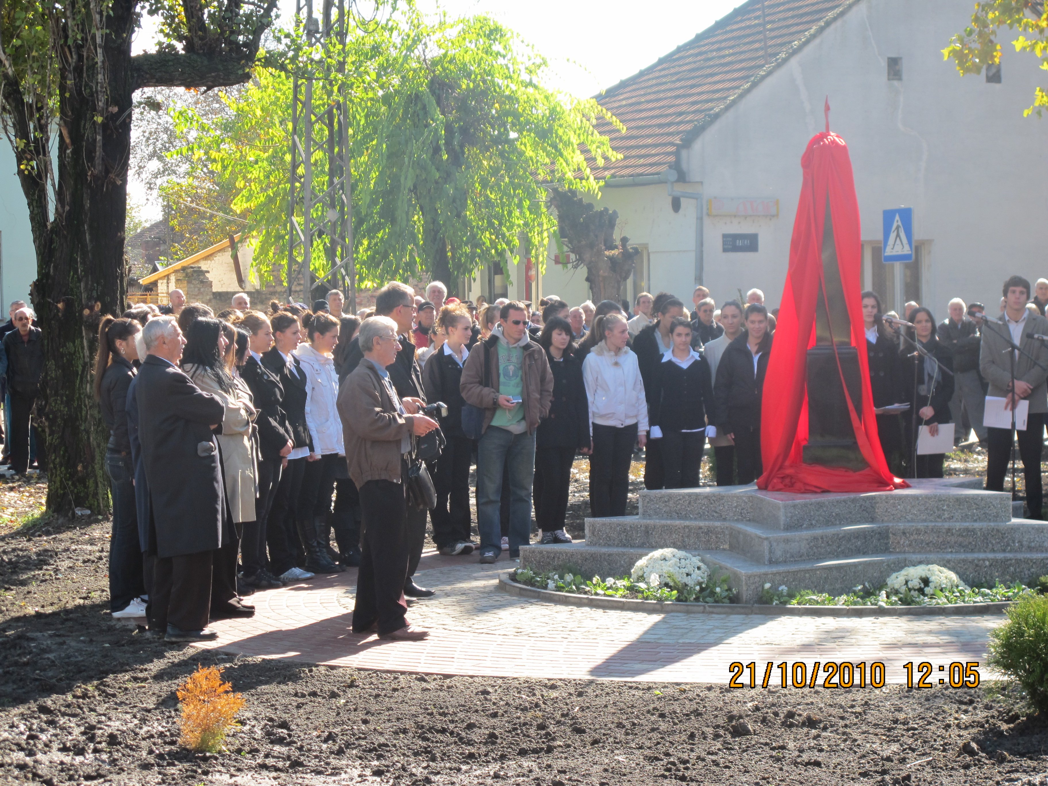 Unveiling of the monument dedicated to fallen soldiers of the Red Army in Vrbas 2010.